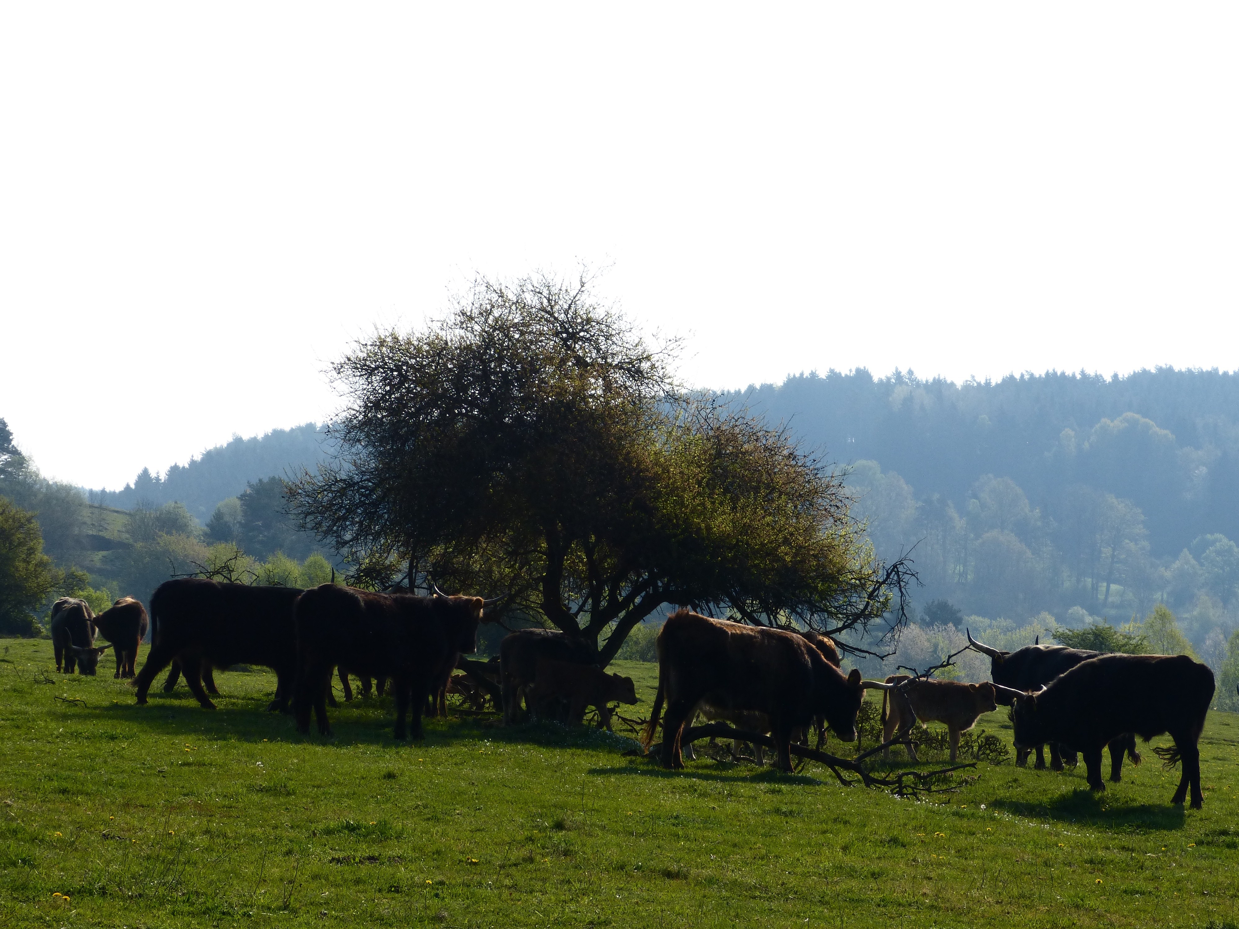 Heck cattle at Grubenfelder Leonie Nature Reserve (Germany)